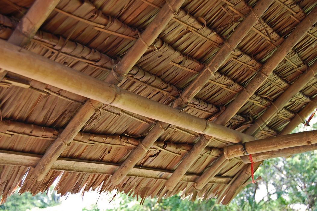 Thatch from Metroxylon sagu leaflets. Bogor, West Java, Indonesia